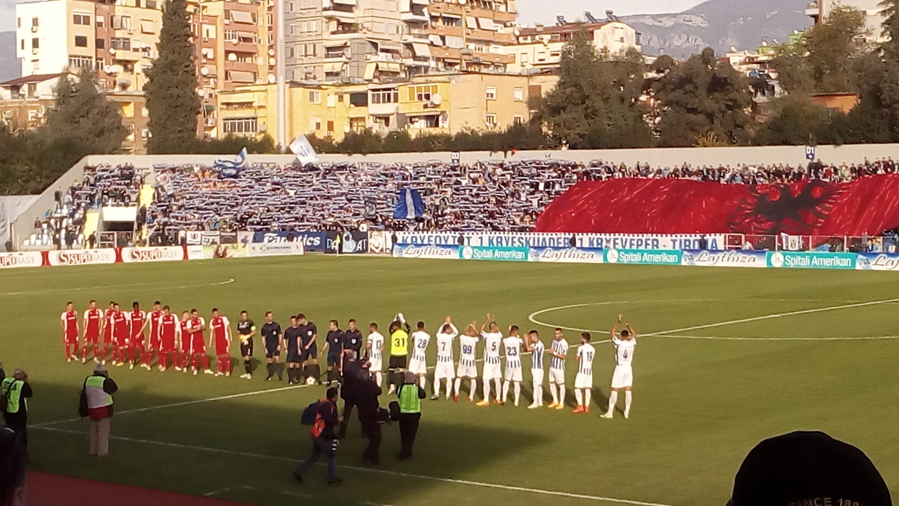 Albanian flag before the match.